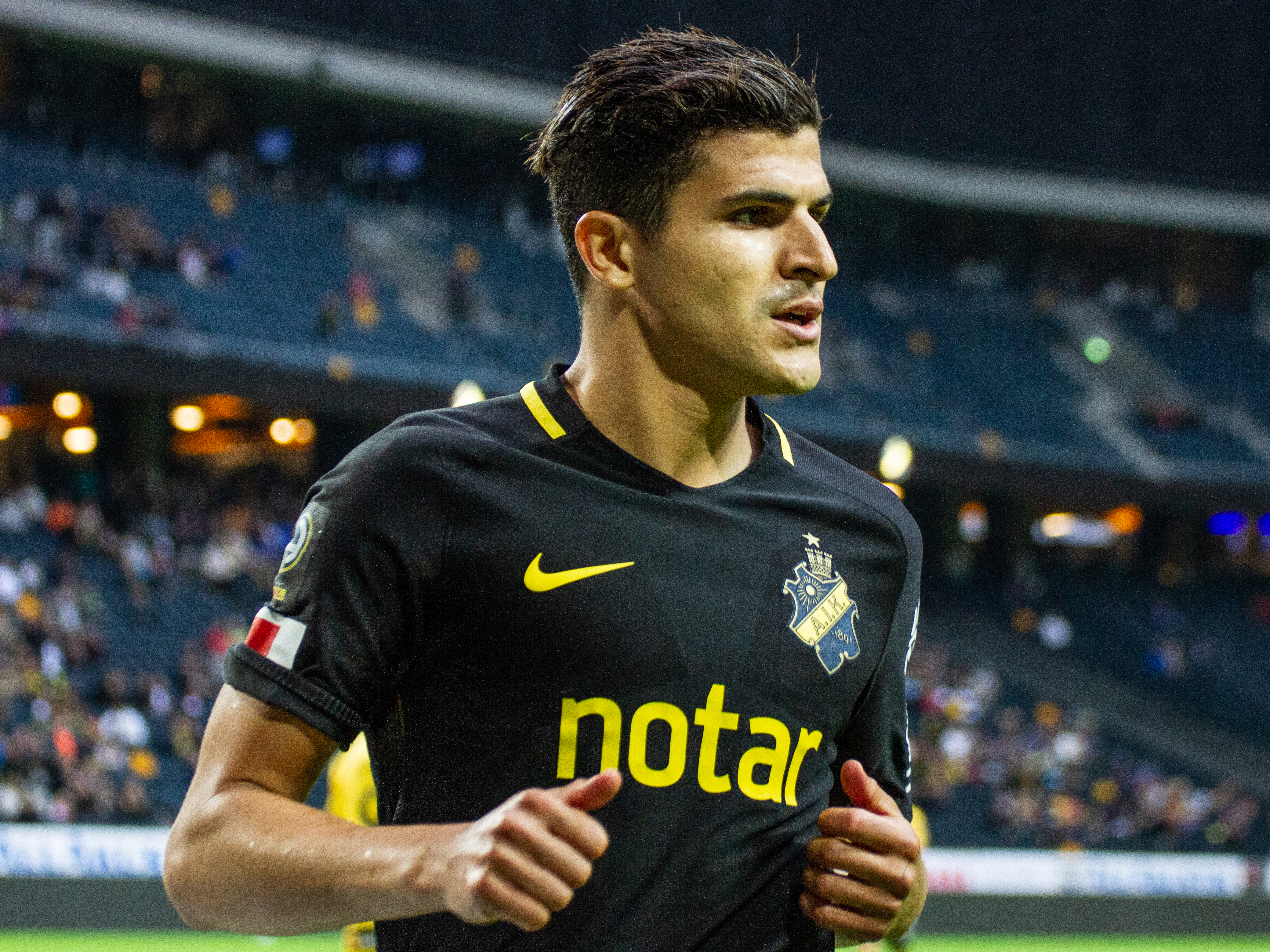 Tarik Elyounoussi in August 2018